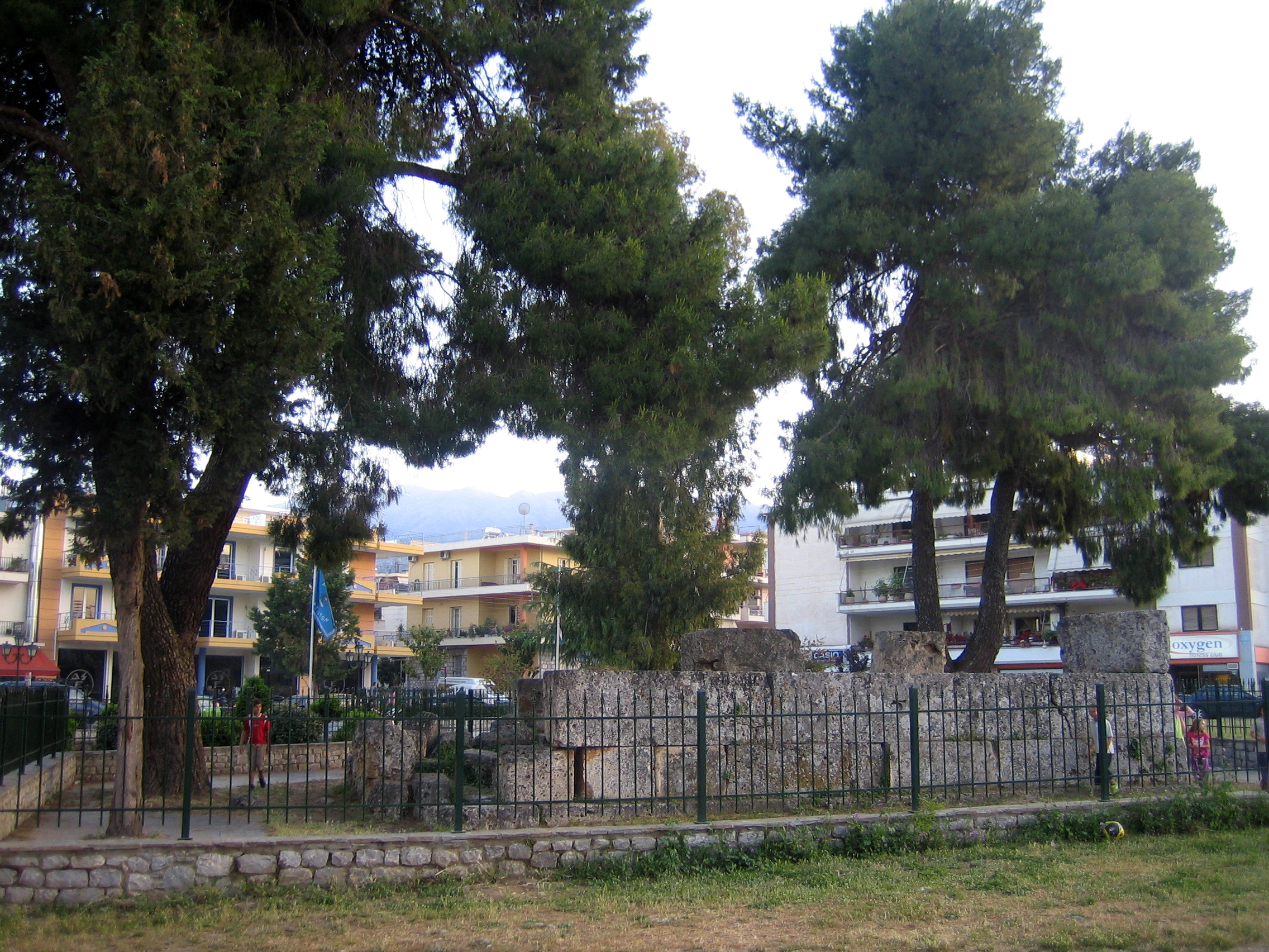 So called Tomb of Leonidas in Sparti (Sparta), Greece. Small temple-like building from 5th century BC.